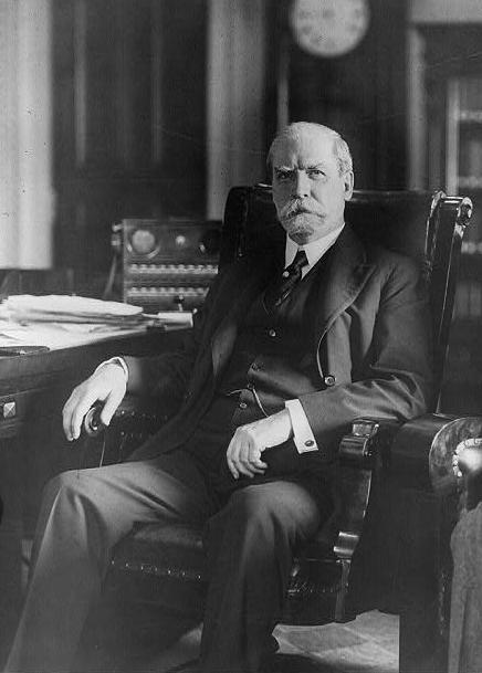 New York politician and Supreme Court Justice Charles Evans Hughes.